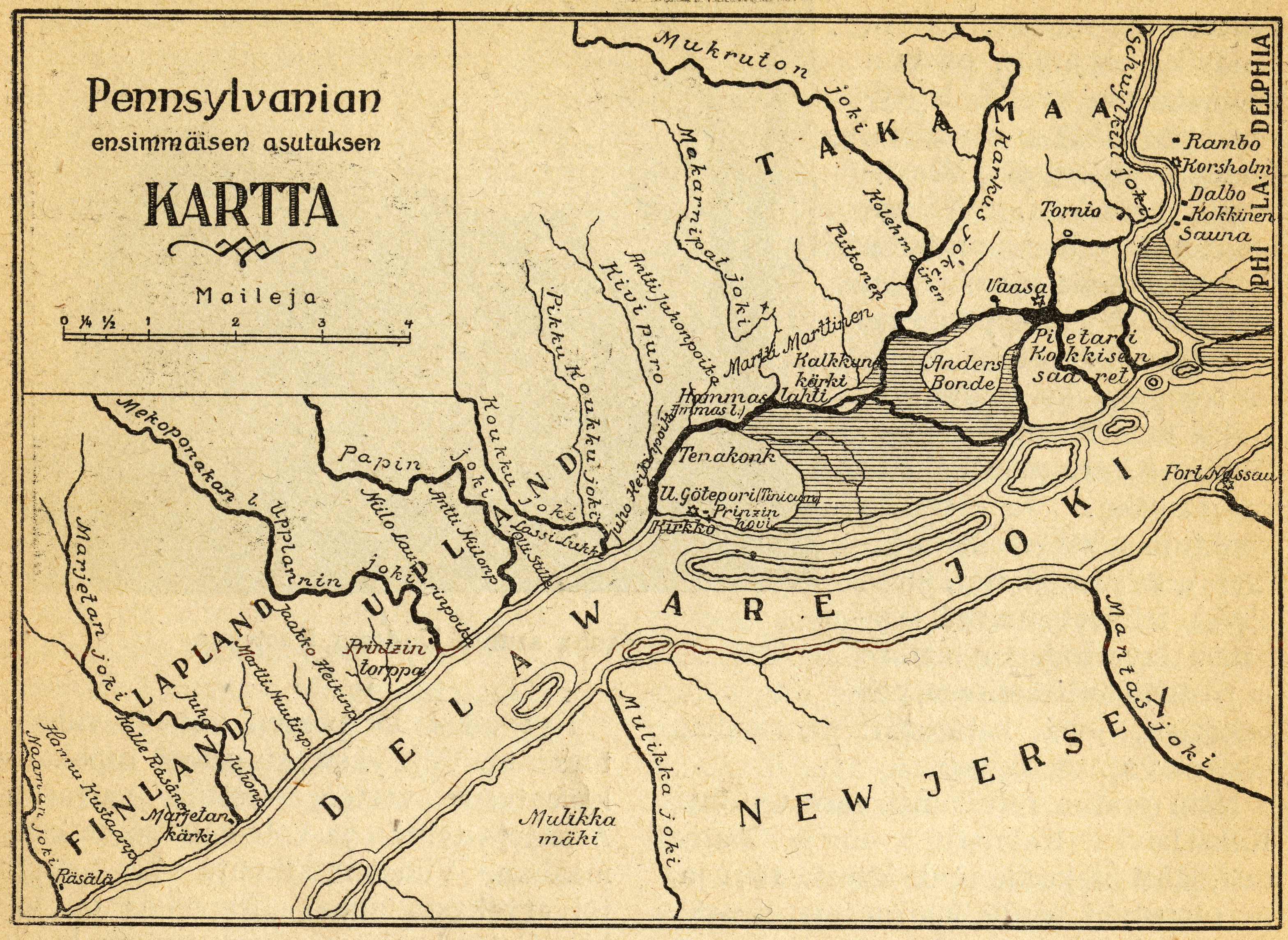 Map of Pennsylvania's first colonization